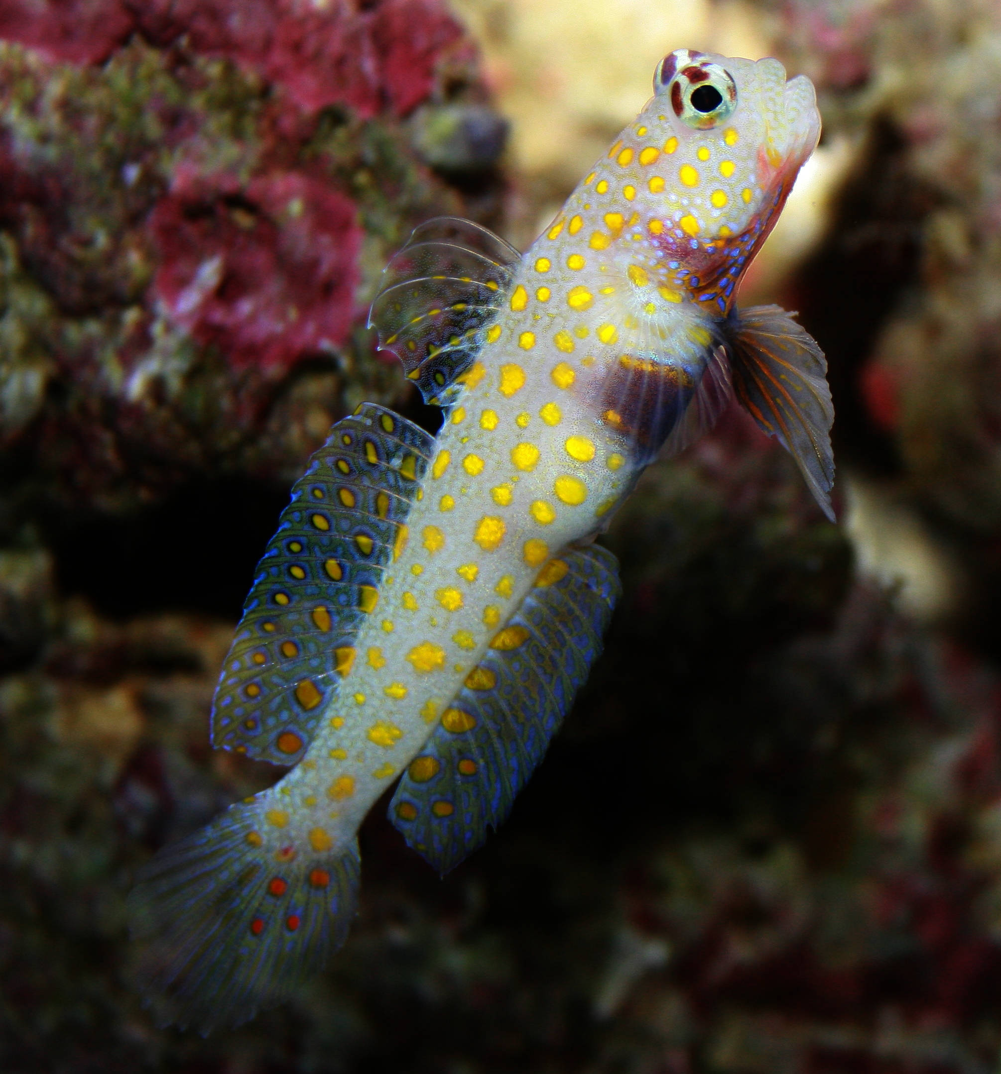 Orange Spotted Goby, goby, fish, saltwater, marine